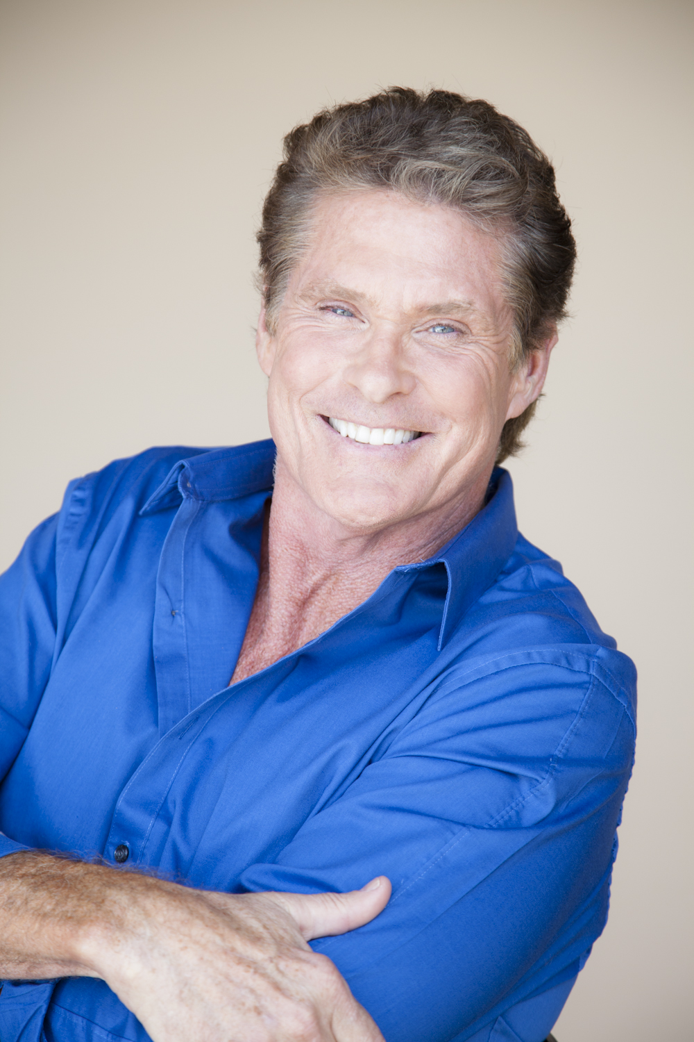 David Hasselhoff in 2013